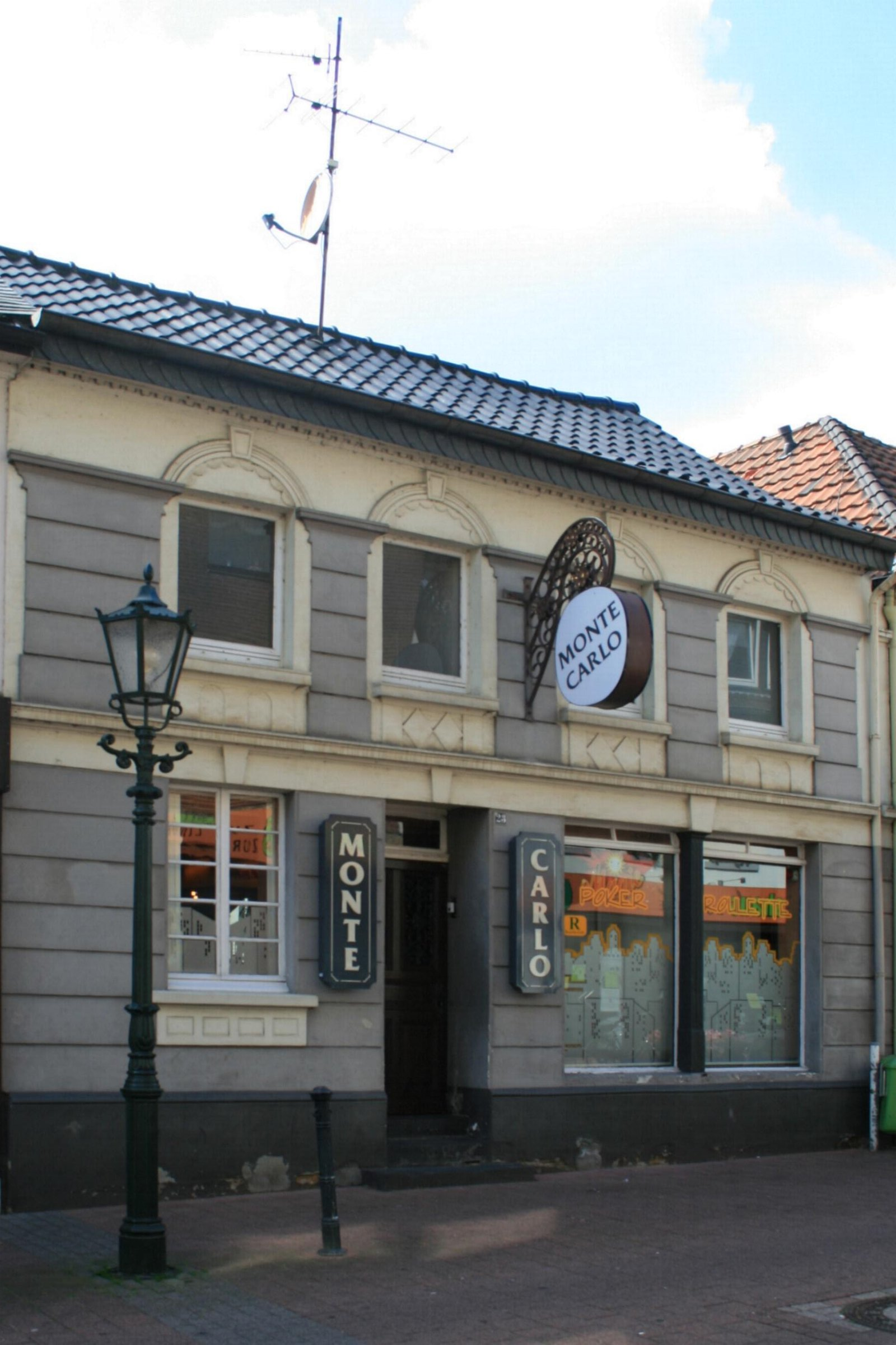 Cultural heritage monument No. Q 003 in Mönchengladbach